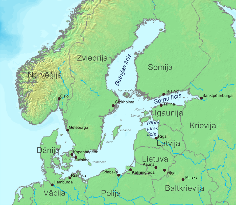 Baltic Sea map in Latvian language